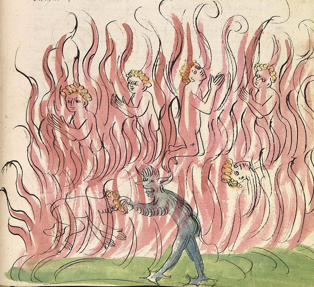 Drawing of St. Patrick's purgatory in the Alsacian manuscript Legenda Aurea, cpg 144 of the University Library Heidelberg, folio 338r.